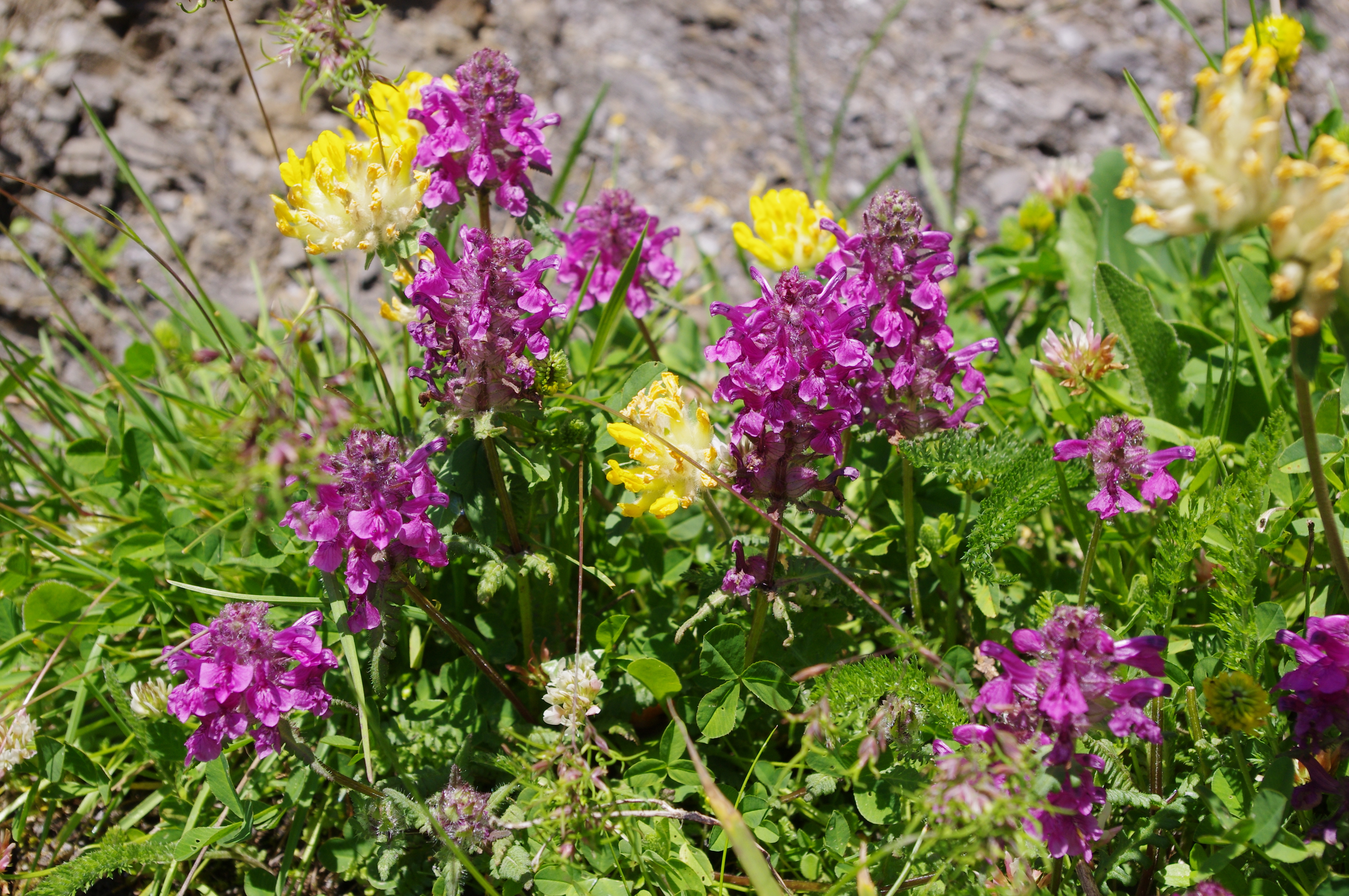 Flowers photographed in Grindelwald, Canton of Berne, Switzerland